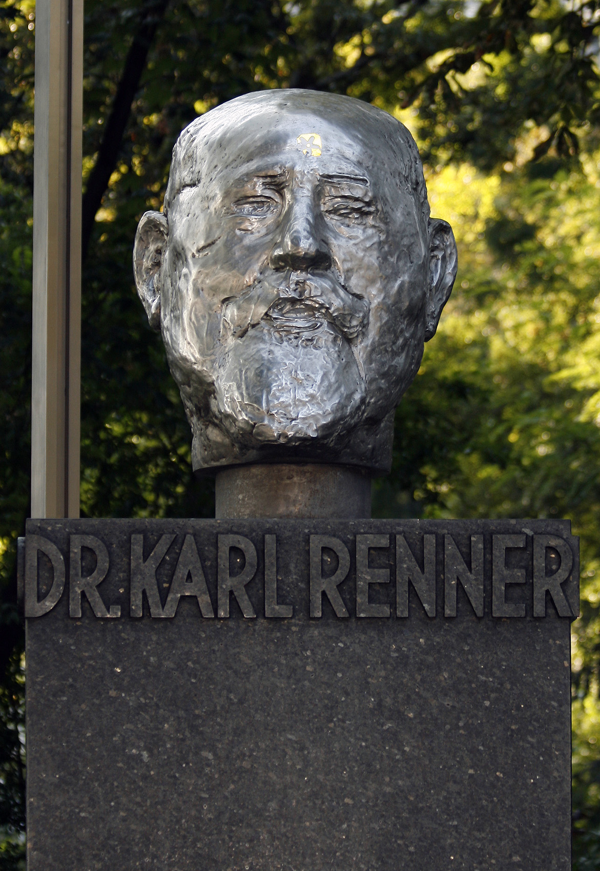 Bust of Karl Renners by Alfred Hrdlicka at the Rathauspark in Vienna